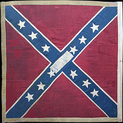 3rd Arkansas Battle Flag, Old State House Museum Collections, Little Rock, Arkansas. Note: Reputedly this flag was made by the ladies of Fredericksburg and presented to the 3d Arkansas Infantry Regiment in gratitude for the kindness shown to citizens of that town. The case for its manufacture outside the structures of the Army has merit, as it differs slightly from the standard issue of battle flag in bunting. Its size is slightly smaller than the standard 48” square, and the unit citation in the center obscures the position of the thirteenth star that is present on the second and third bunting issues. The flag was carried until surrender in 1865. Army of Northern Virginia Battle Flag pattern variation Bunting and cotton with canvas lead, 47” X 46”